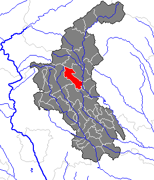 This map shows the area of the Gemeinde (municipality) Naintsch in the Bezirk (district) Weiz, Styria, Austria.